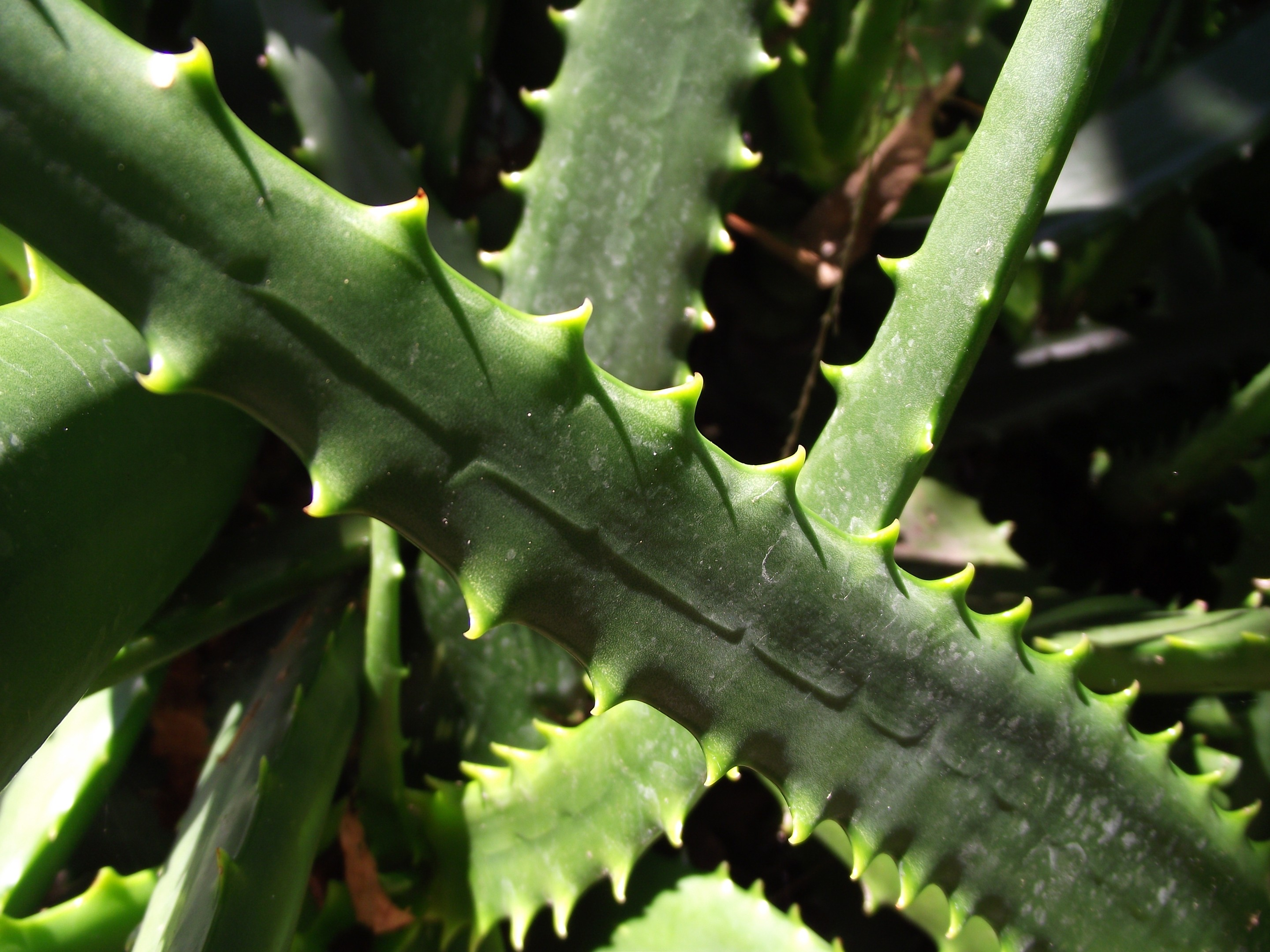 Aloe camperi at the San Diego Botanic Garden, Encinitas, California, USA. Identified by sign.